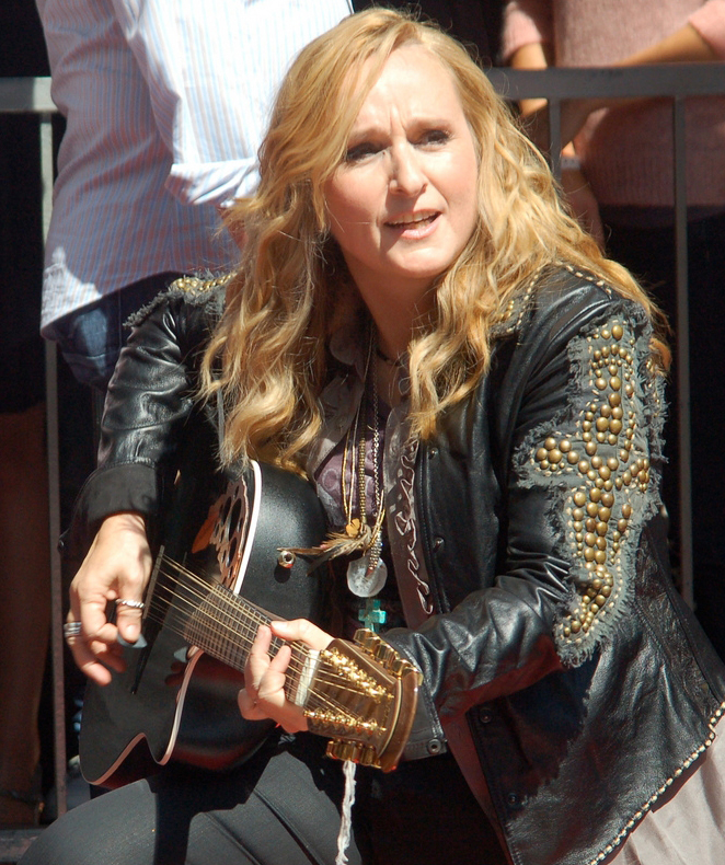 Melissa Etheridge at a ceremony to receive a star on the Hollywood Walk of Fame.